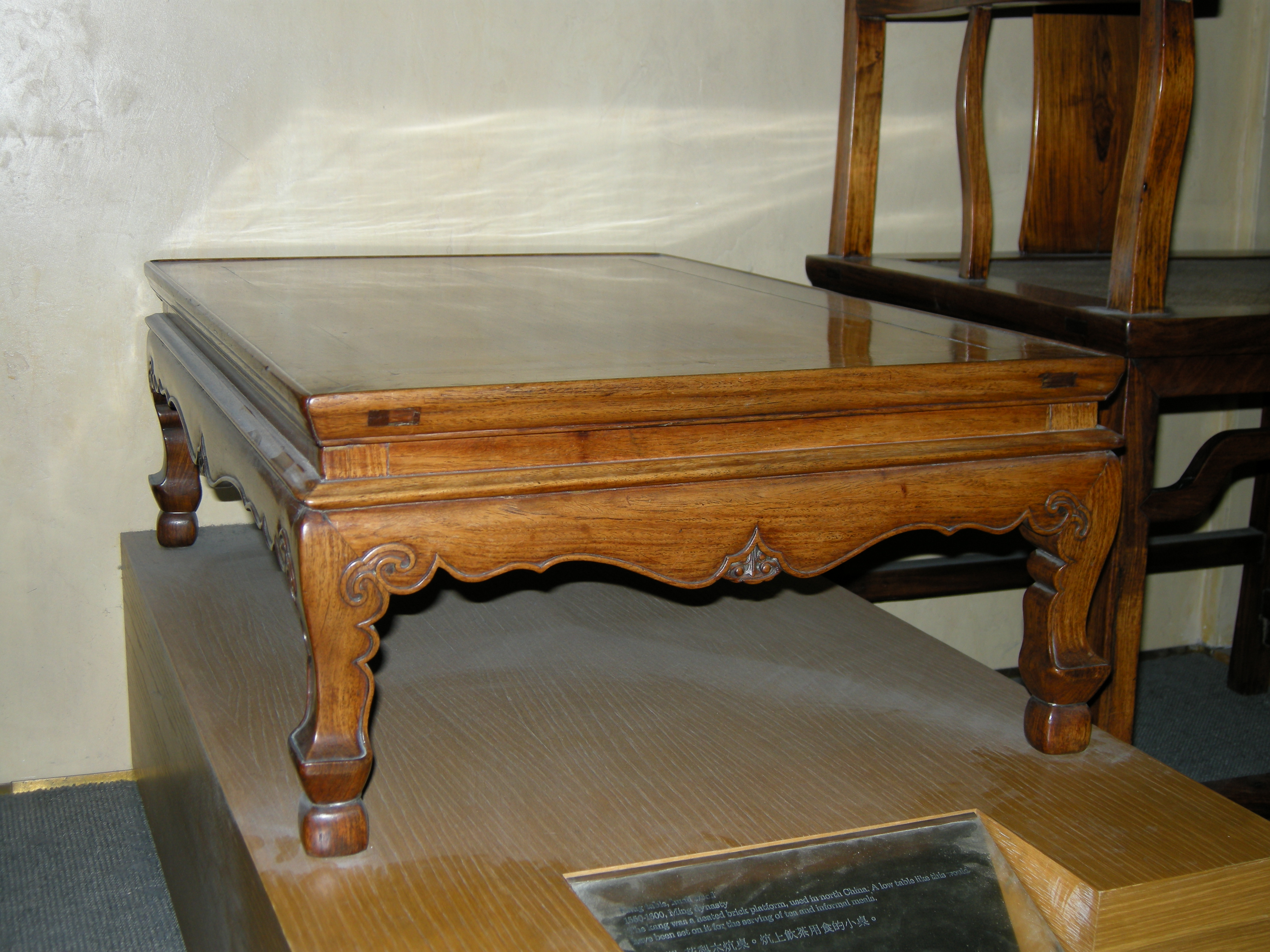 Kang table, huali wood 1550-1600, Ming dynasty The Kang was a heated brick platform, used in north China. A low table like this would have been set on it for the serving of tea and informal meals. FE.68-1983 Addis Gift Wikipedia Loves Art at the Victoria and Albert Museum This photo of item # [1] at the Victoria and Albert Museum was contributed under the team name "VeronikaB" as part of the Wikipedia Loves Art project in February 2009. Victoria and Albert Museum The original photograph on Flickr was taken by VeronikaB—please add a comment to the original Flickr page whenever a use has been made on Wikipedia or another project. Project galleries on Flickr: this institution, this team